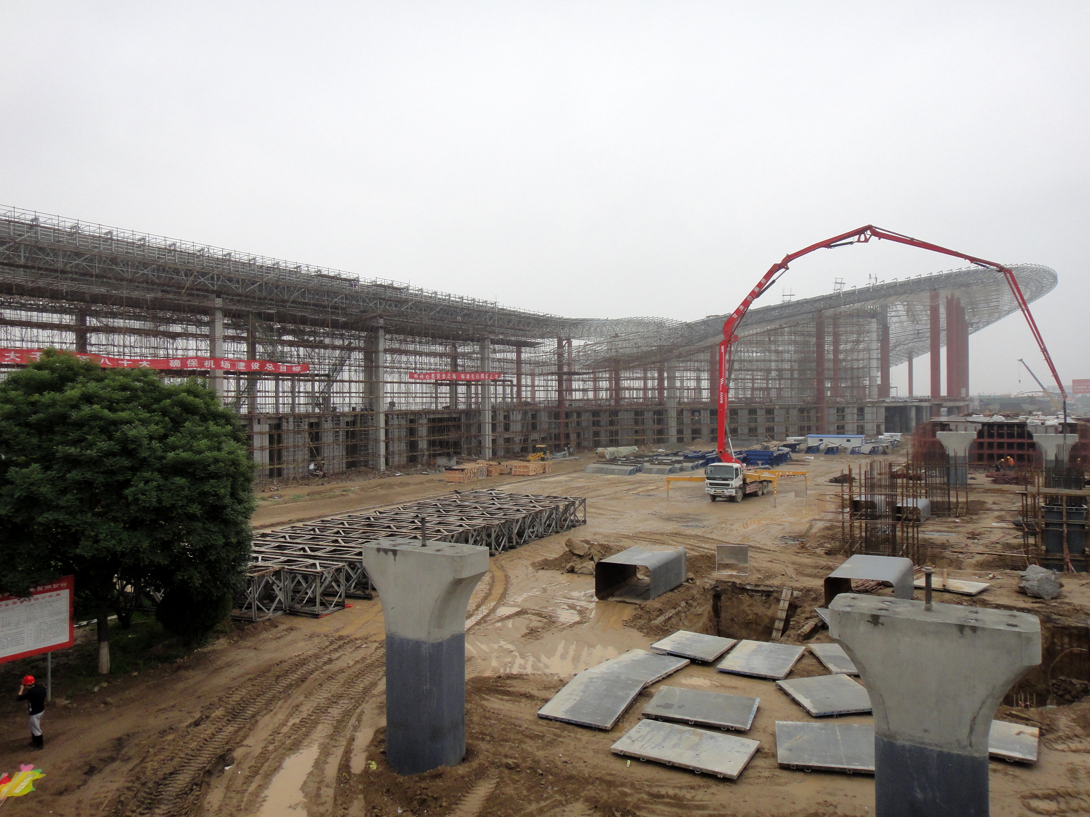 New Terminal at Lanzhou Airport under construction to the immediate south of the existing terminal.